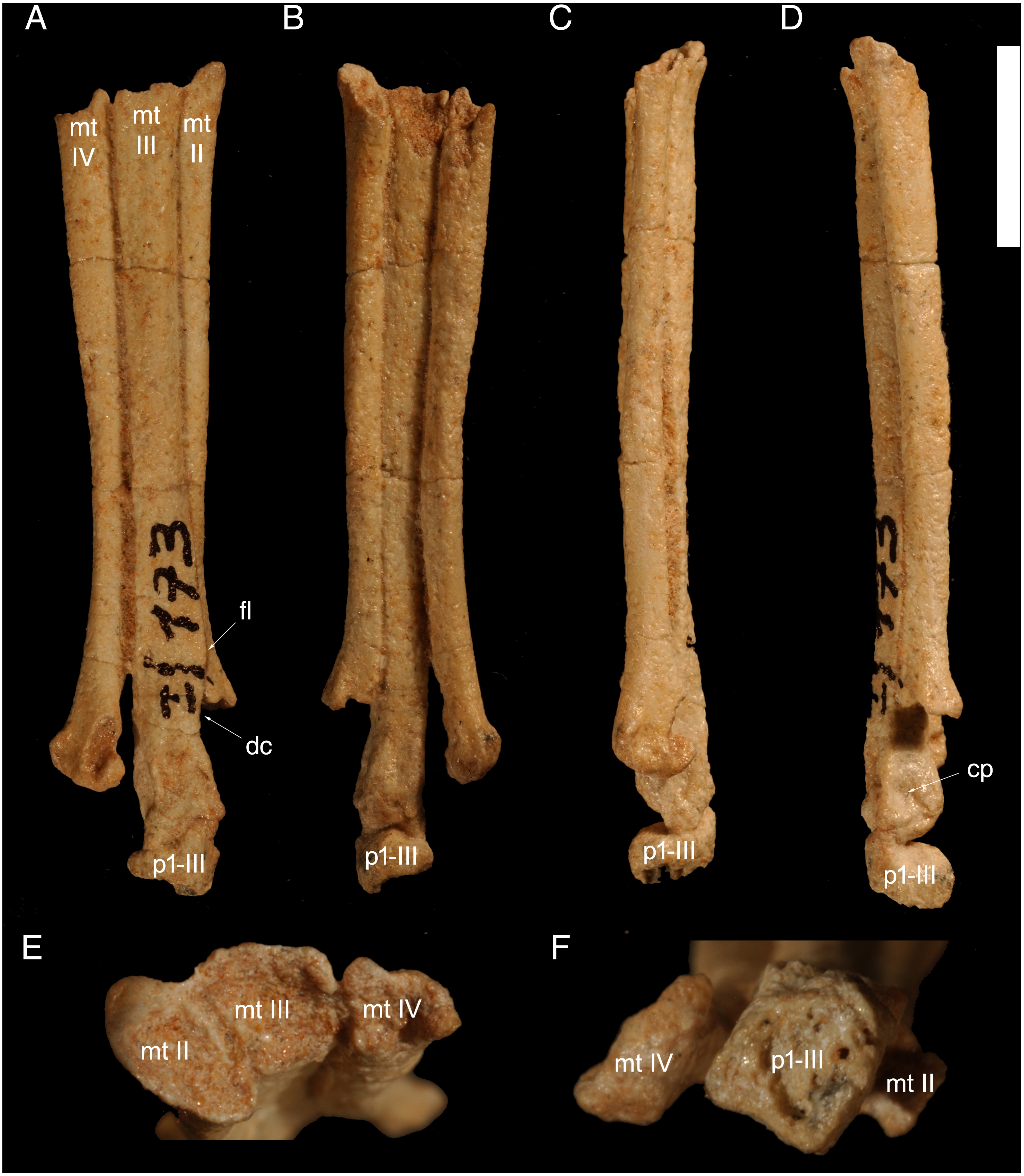 Right metatarsals II–IV and pedal phalanx p1-III of Hulsanpes perlei (ZPAL MgD-I/173). Extensor view (A), flexor view (B), lateral view (C), medial view (D), proximal view (E), distal view (F) . Abbreviations: cp, collateral pit; dc, shaft constriction distal to flange; fl, medial flange of metatarsal III; mtII-IV, metatarsals II–IV; p1-III, pedal phalanx p1-III. Scale bar in A–D: 10 mm.